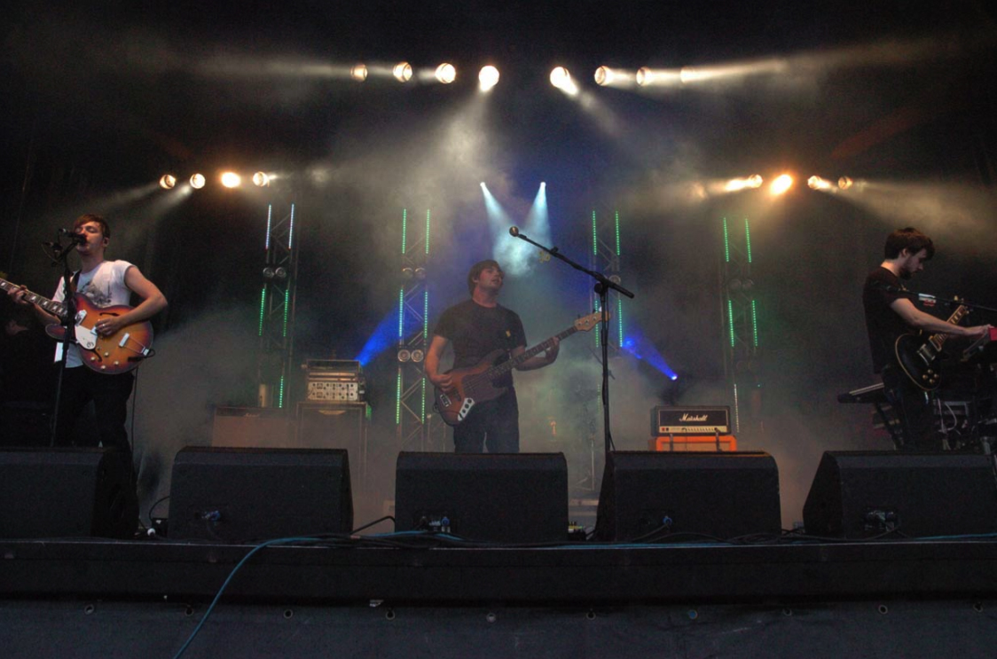 'The Automatic performing at this years Barry Waterfront Festival'